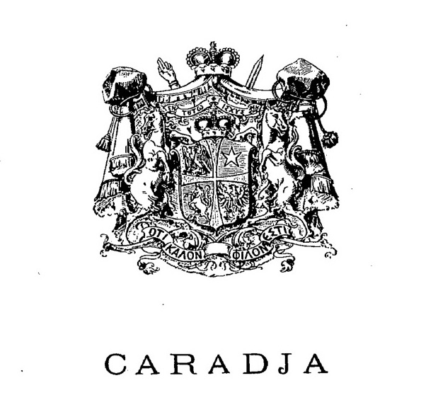 Caradja coat of arms